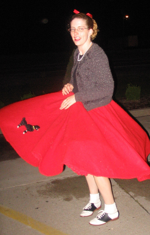 A woman twirling her poodle skirt.